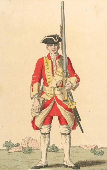 Soldier of the 15th regiment (1742)